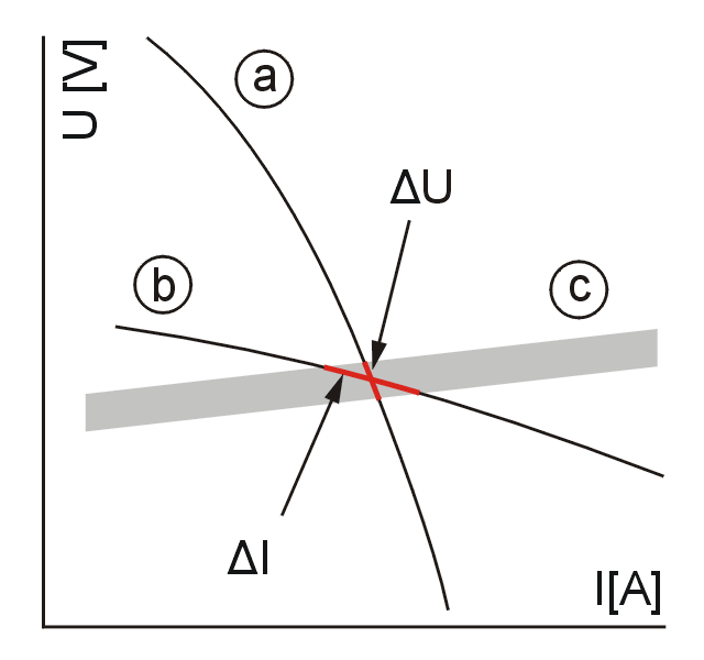 Power Source Volt-Amp Characteristic